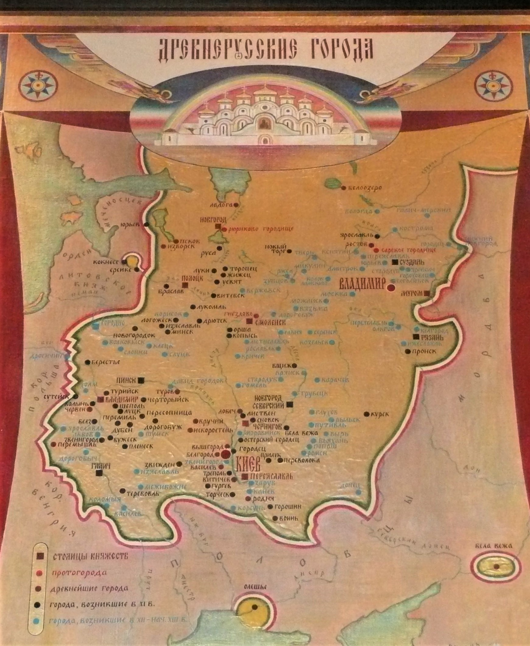 Map of ancient Russian cities in the State History Museum, Moscow